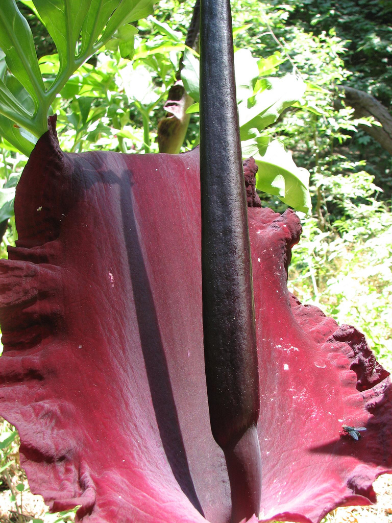 Dracunculus vulgaris. Part of Inflorescence. I found these strange flowers in the Rodini park, Rhodes. they're enormous: the petal measures at least 15x40 cm and the pistil (?) about 60.